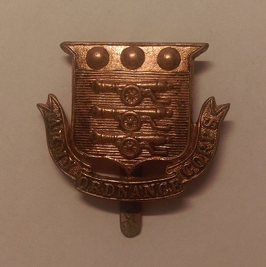 Photo of Army Ordnance Corps Cap Badge from personal collection